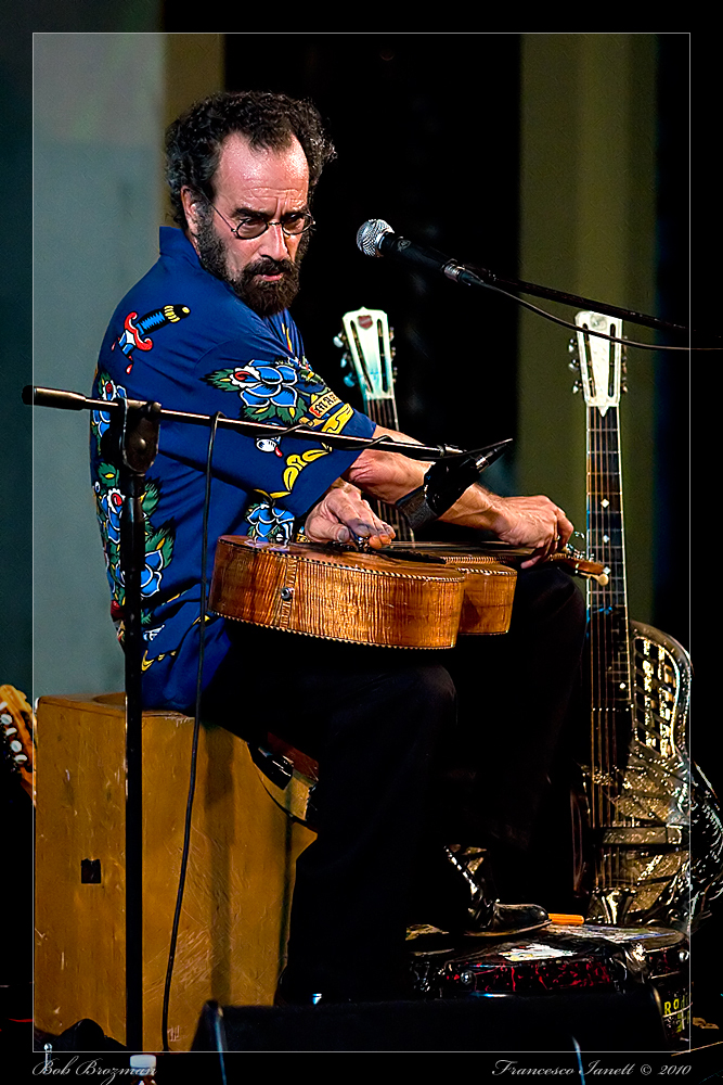 Bob Brozman at Musicastrada, 2010